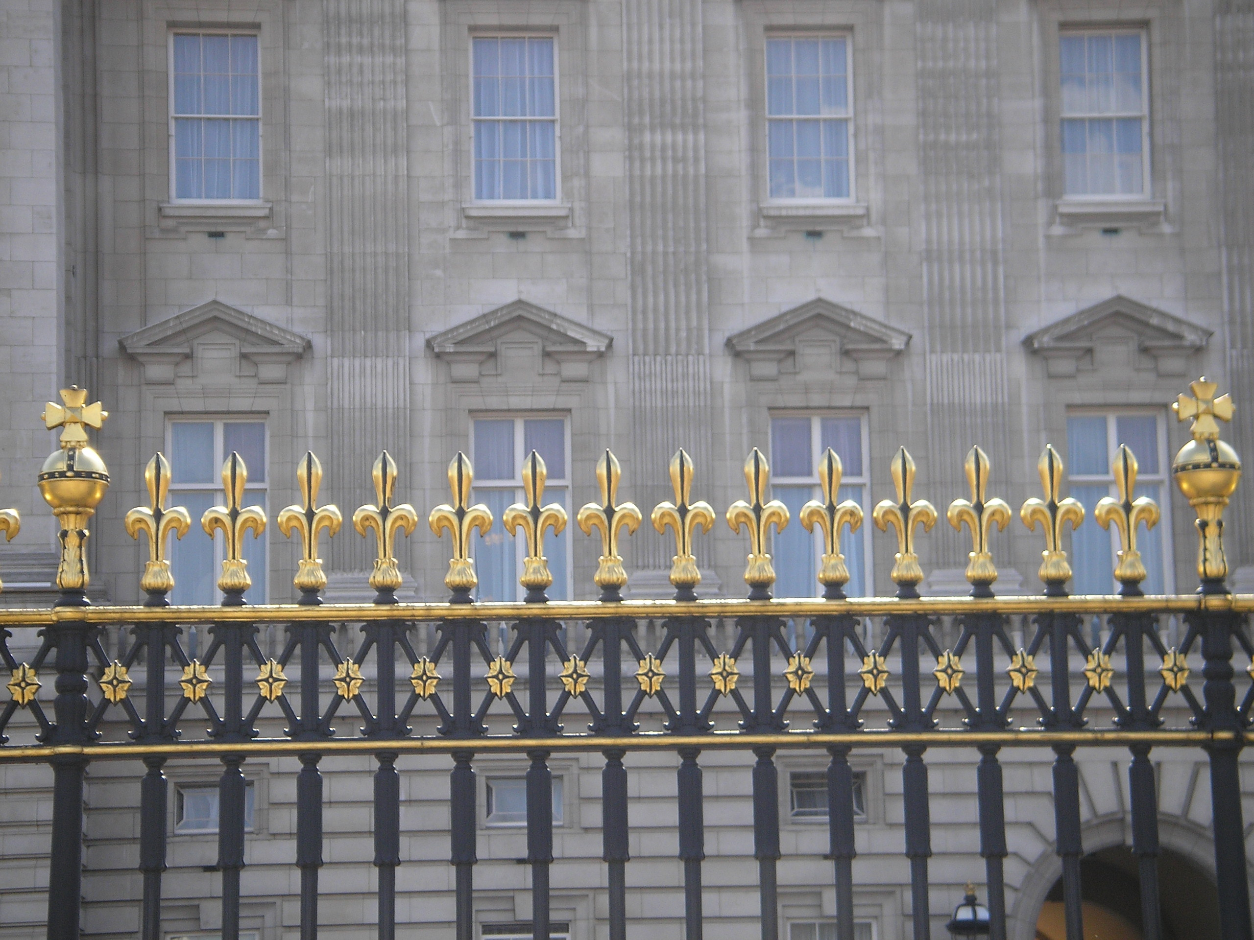 Fence with fleur-de-lis on Buckingham Palace in London